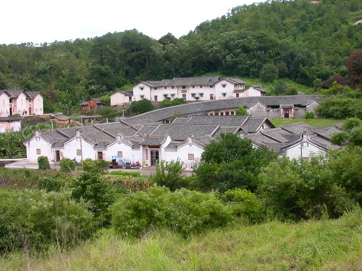 Horn House (called: nyiu kok wuk by the local people), located at mei county